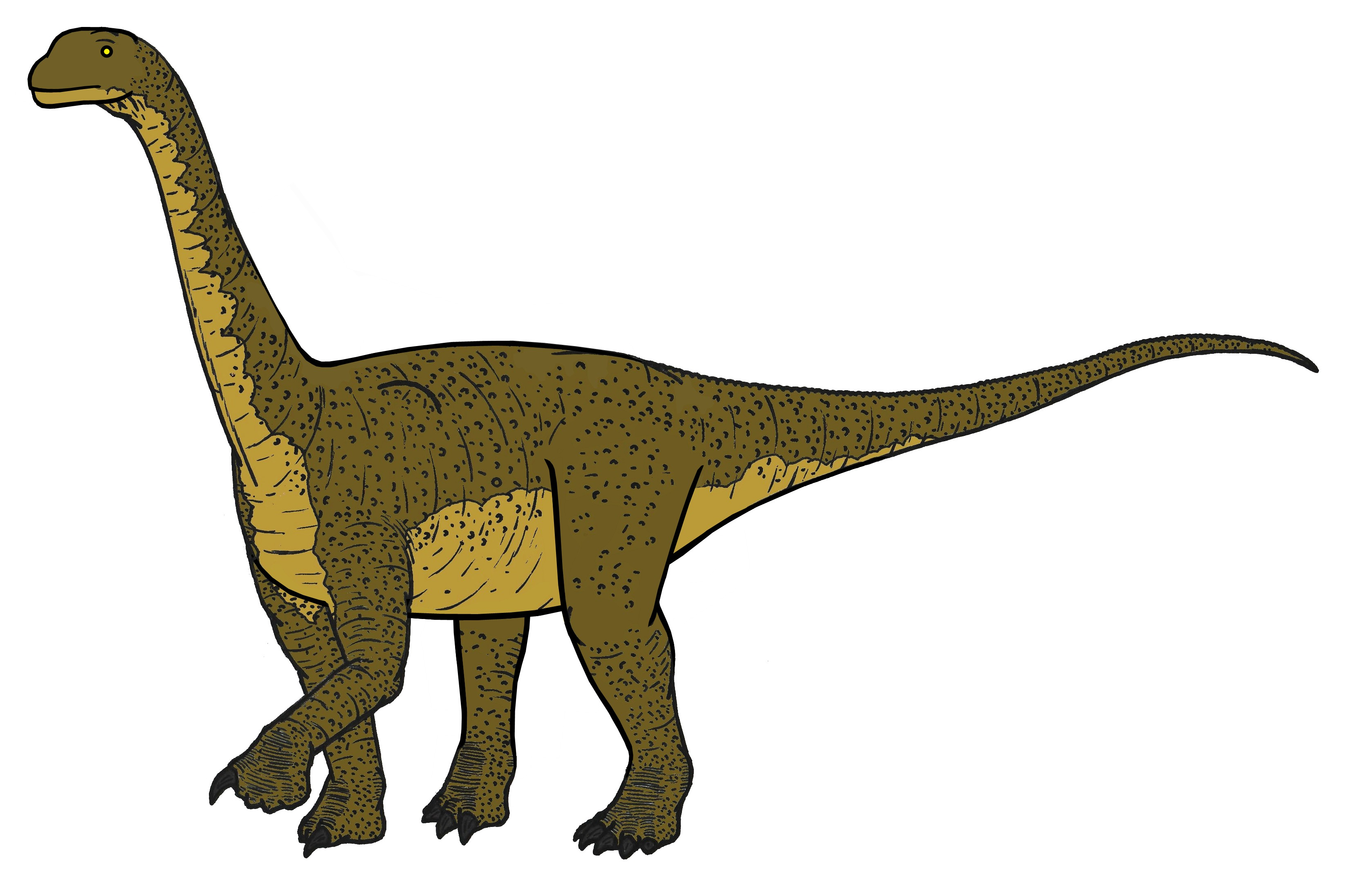 Illustration of Camarasaurus. Camarasaurus, or Camarosaurus, was a 22 tonnes sauropod dinosaur which lived in Utah and Wyoming, USA. It's dated by scientists to the late jurassic period.